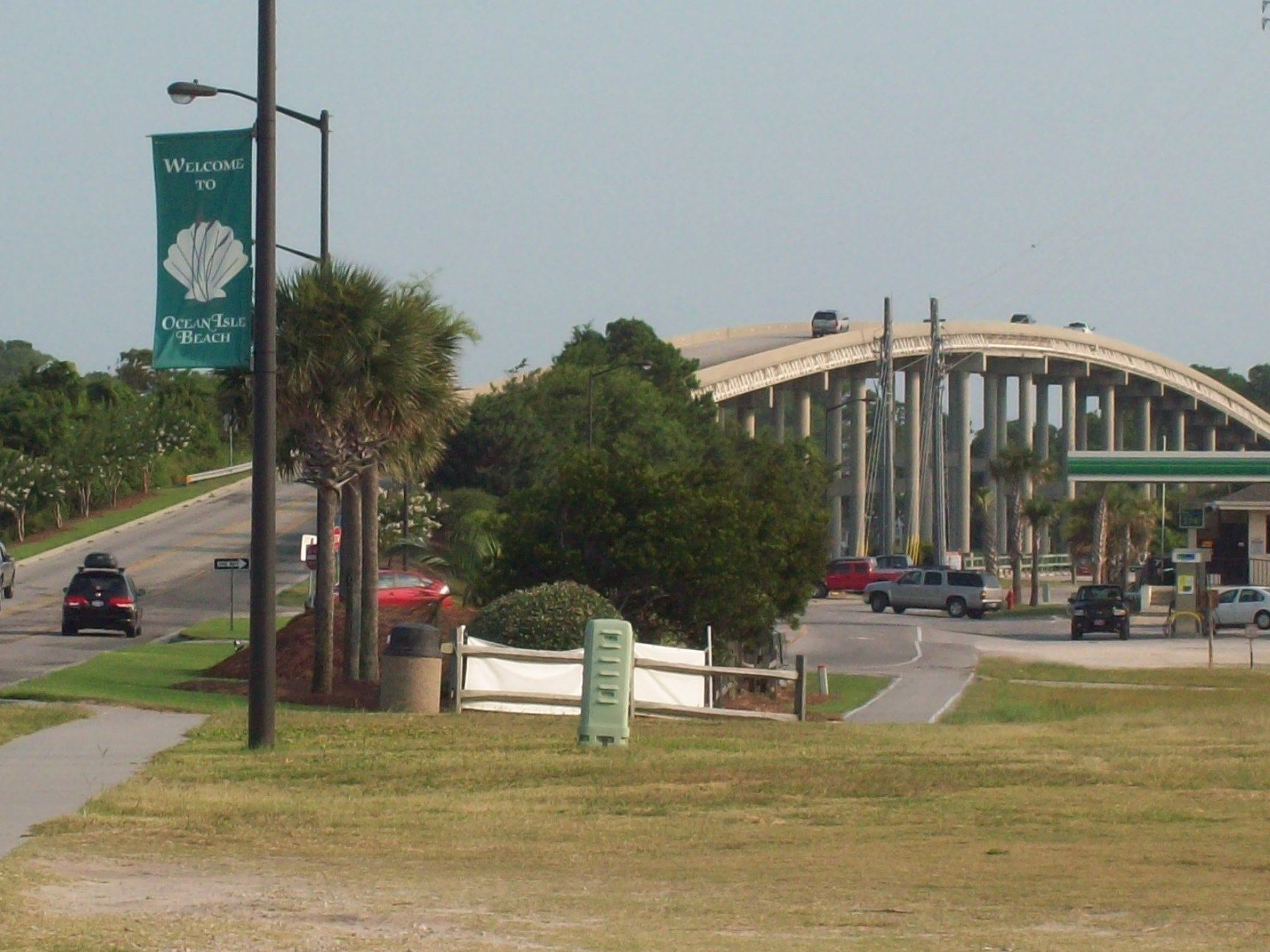 Bridge over Intracoastal Waterway, Ocean Isle Beach NC, June 2010